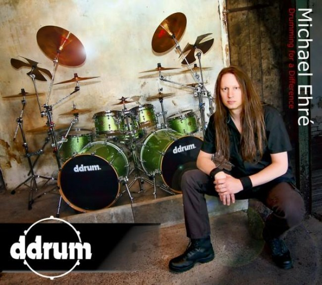 Michael Ehré Promopic